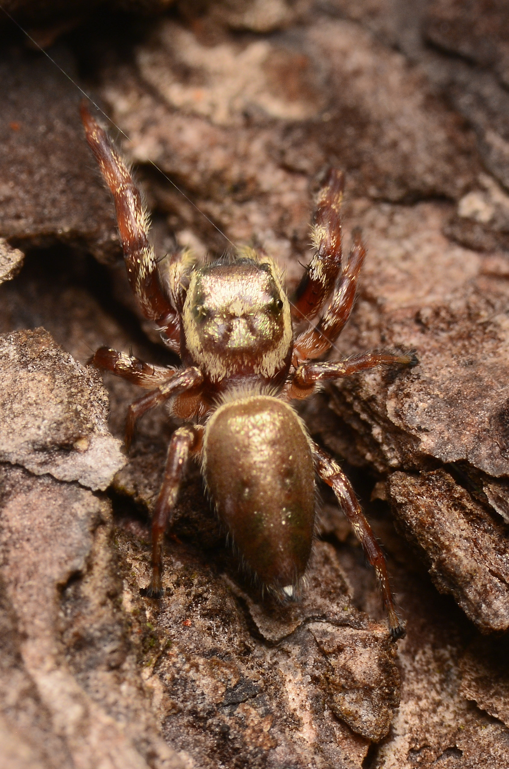 Eris floridana adult male dorsal image. Note: Short and thin abdominal band, narrow and long stripes along the side of the carapace